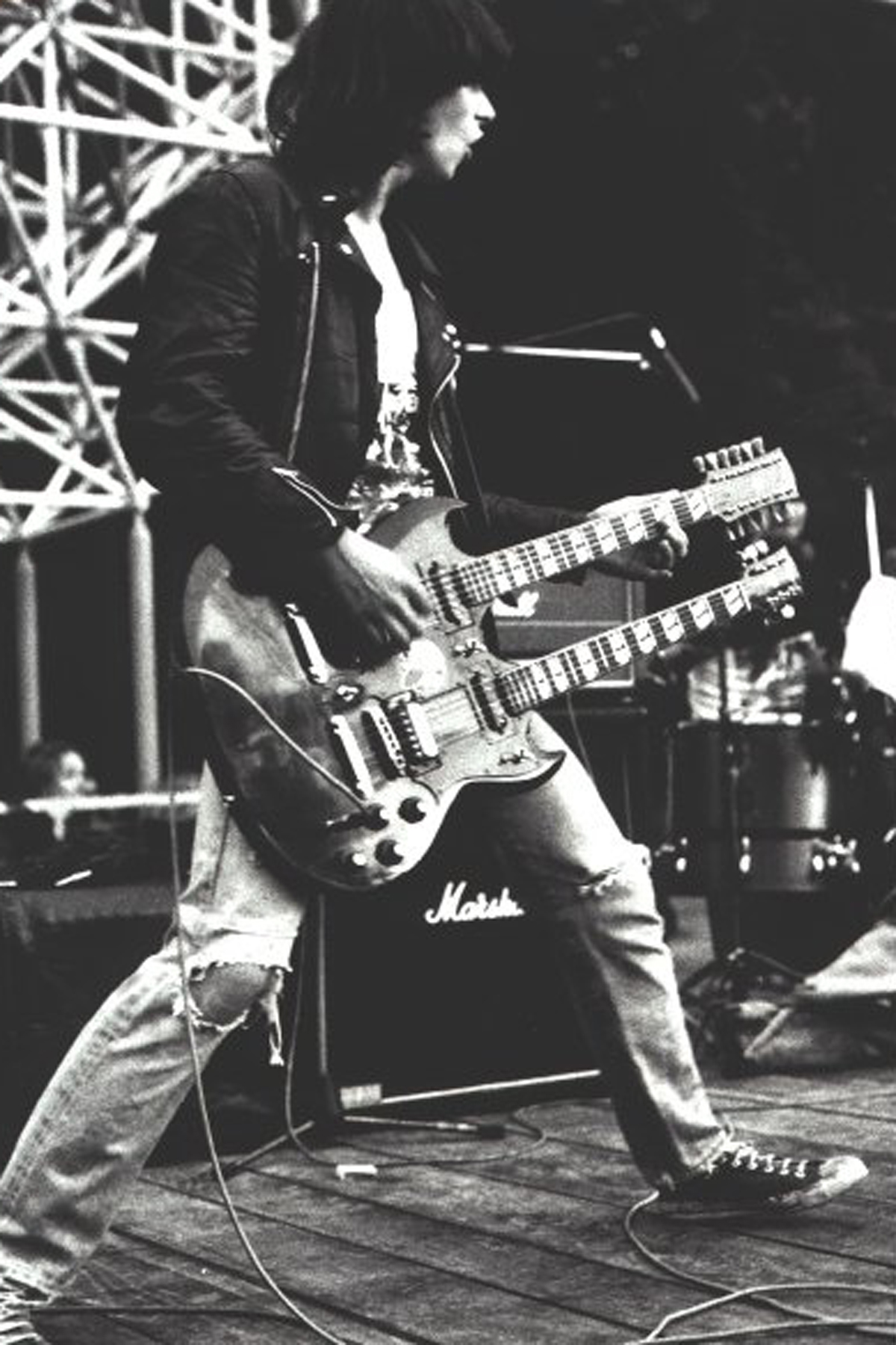 on stage